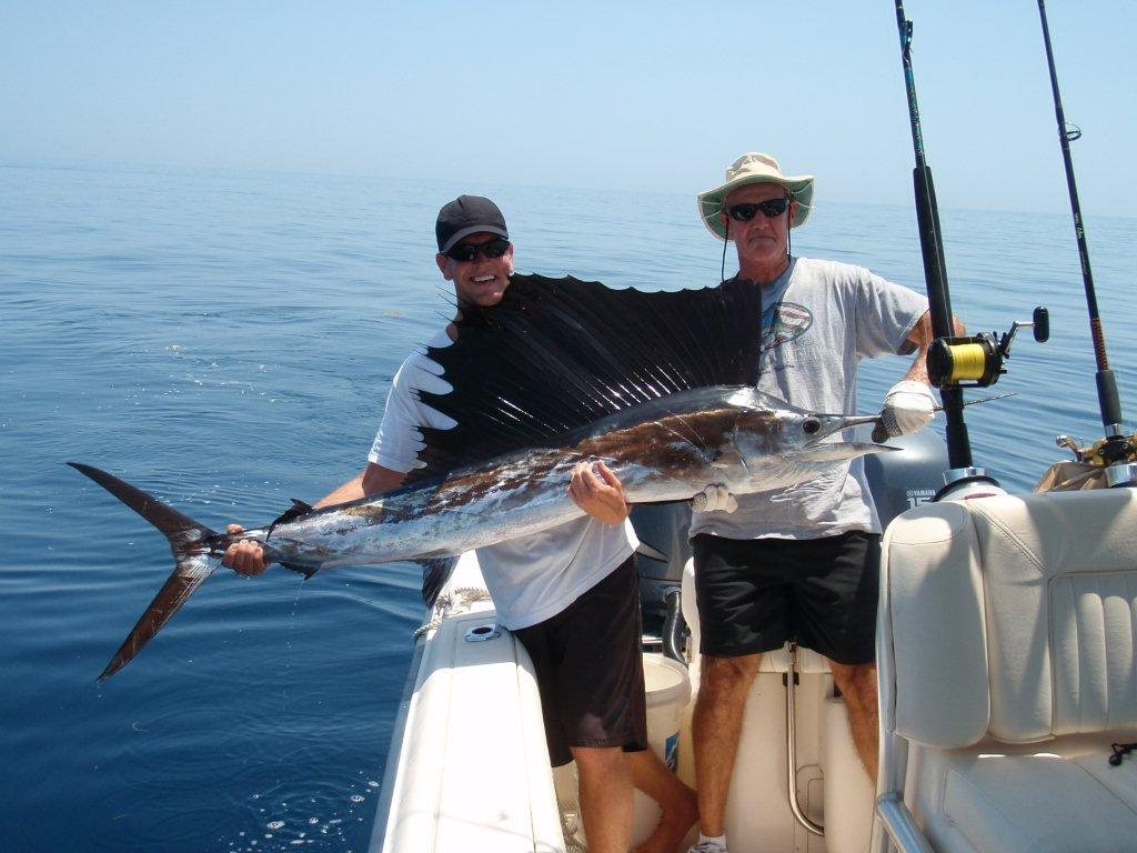 Two men holding a freshly caught sailfish. Original description: ryans sail 014